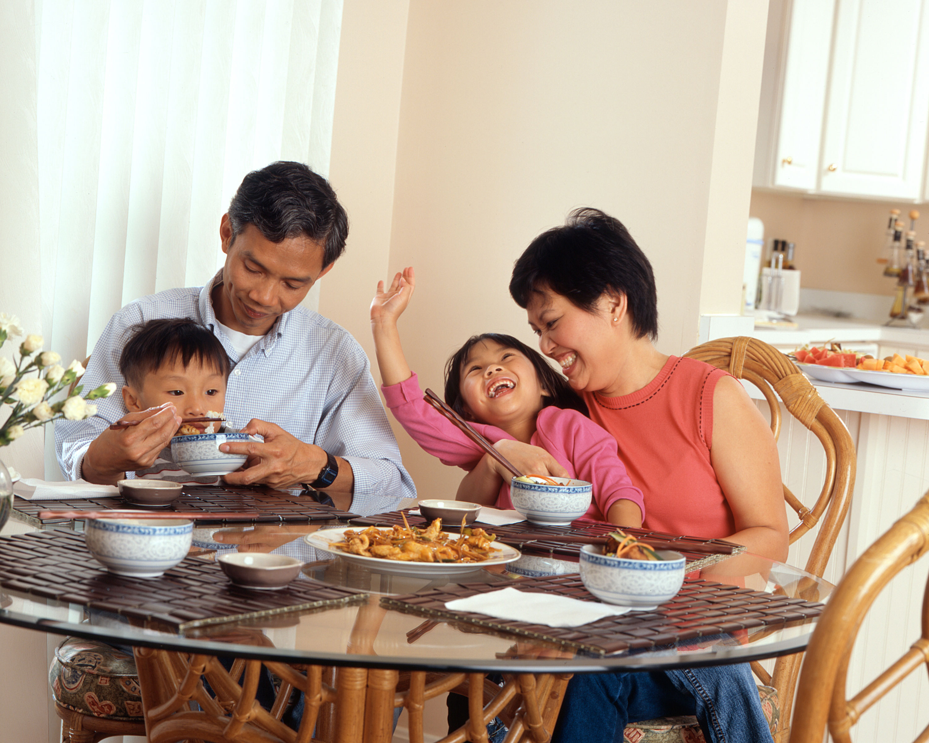 Title Family Eating a Meal Description An Asian family, are seated around a table eating a meal with chopsticks. An adult male, feeding the boy on his lap and an adult female with a girl eating on her lap. Topics/Categories Food and Drink People -- Adult People -- Child People -- Family/Friends Type Color, Photo Source National Cancer Institute (NCI)